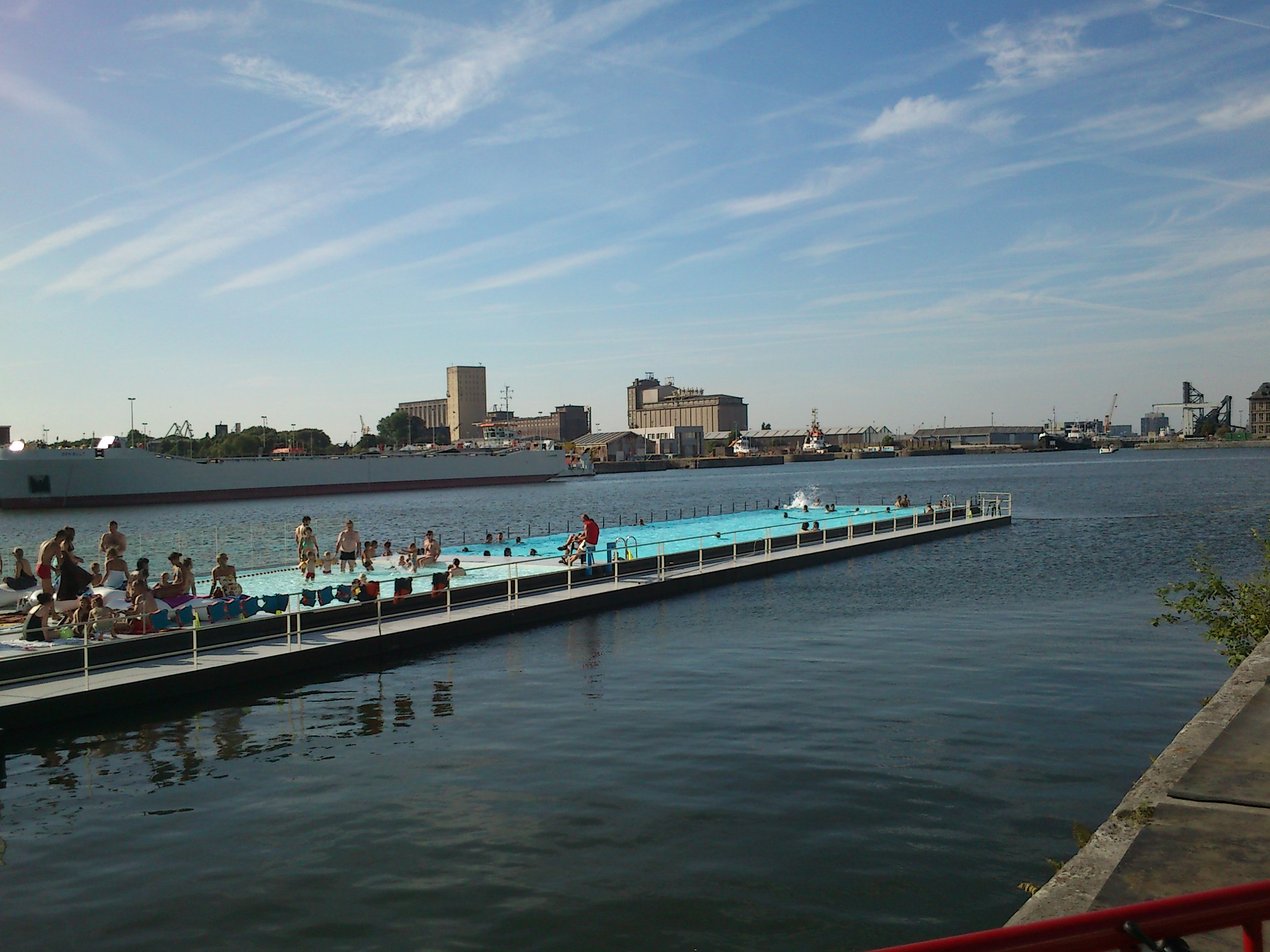 De "Badboot" A boat with a public pool in Antwerp, Belgium.